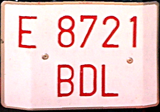 Spanish licence plate, special vehicles